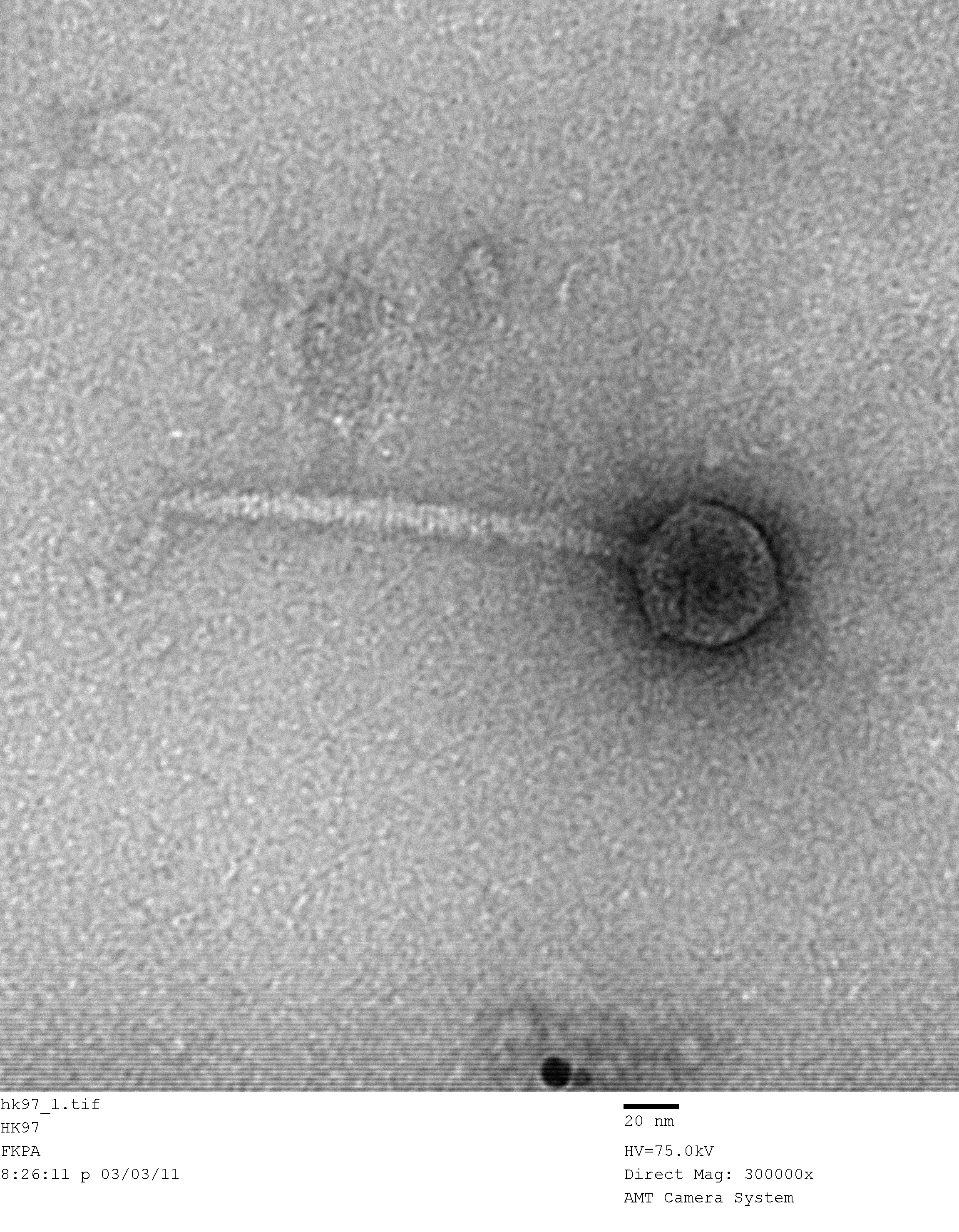 Bacteriophage HK97 visualized using a transmission electron microscope.